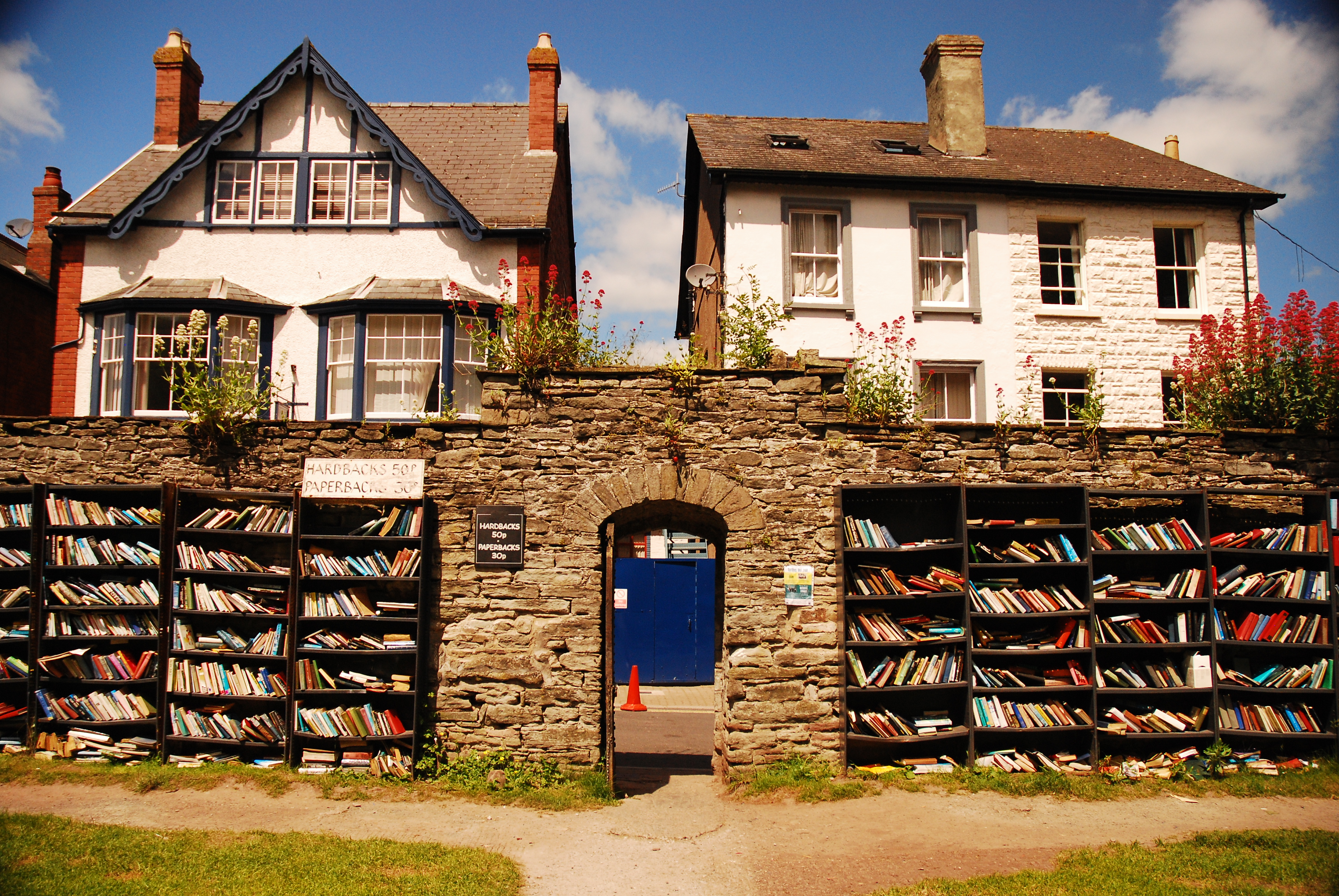 "The Honest Bookshop" in Hay on Wye, Wales, UK. People who want to buy something are left to deposit their money in a cashbox (50p for a hardback, or 30p for a paperback).